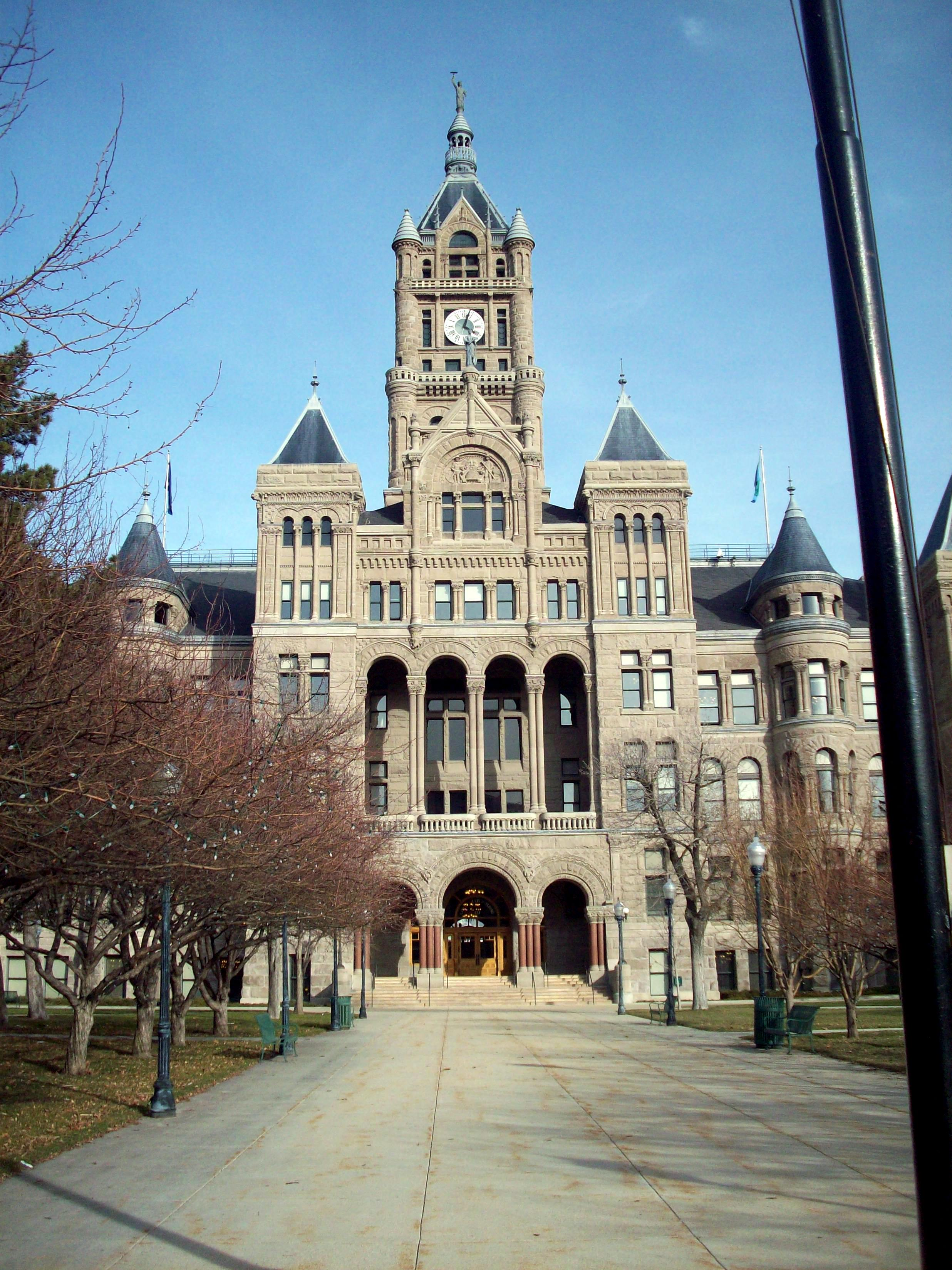 The Salt Lake City, Utah "City and County" building, in downtown Salt Lake City.